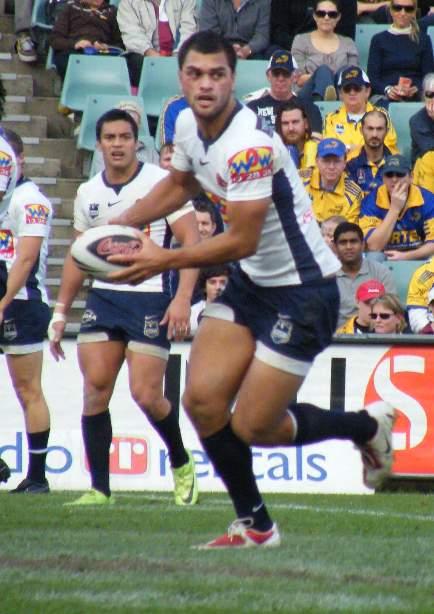 Karmichael Hunt of the Brisbane Bronco's RLFC